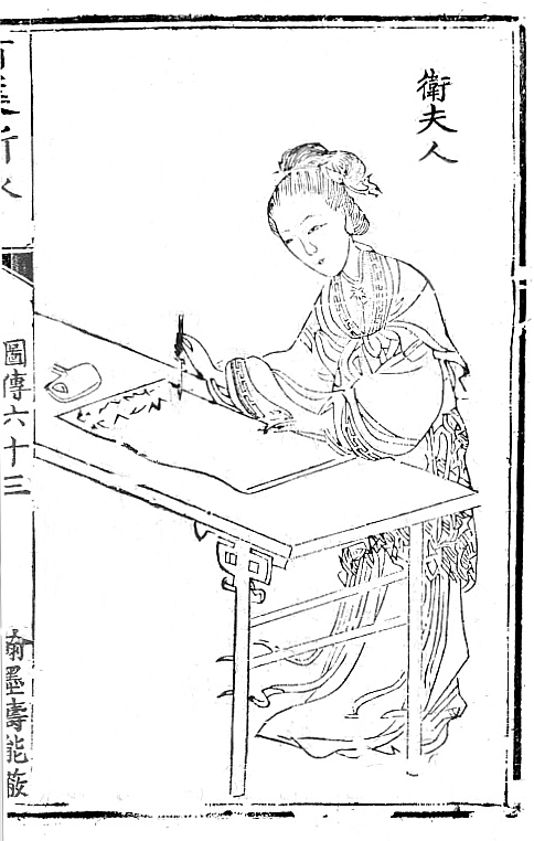 Wei Shuo, or Lady Wei, from the 18th century work Hundred Poems of Beautiful Women (Bai Mei Xin Yong Tu Zhuan 百美新詠圖傳) by Yan Xiyuan (颜希源). Woodblock print of drawing by Wang Hui 王翙